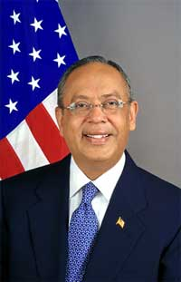 Sada Cumber. As of 2008, the United States Ambassador to the Organization of the Islamic Conference.